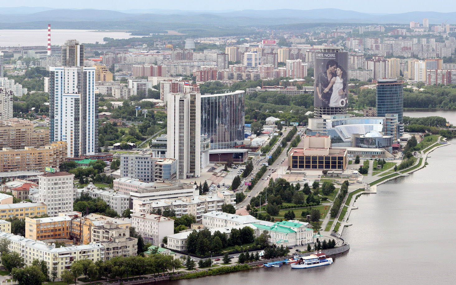 Ekaterinburg. Center of Ekaterinburg